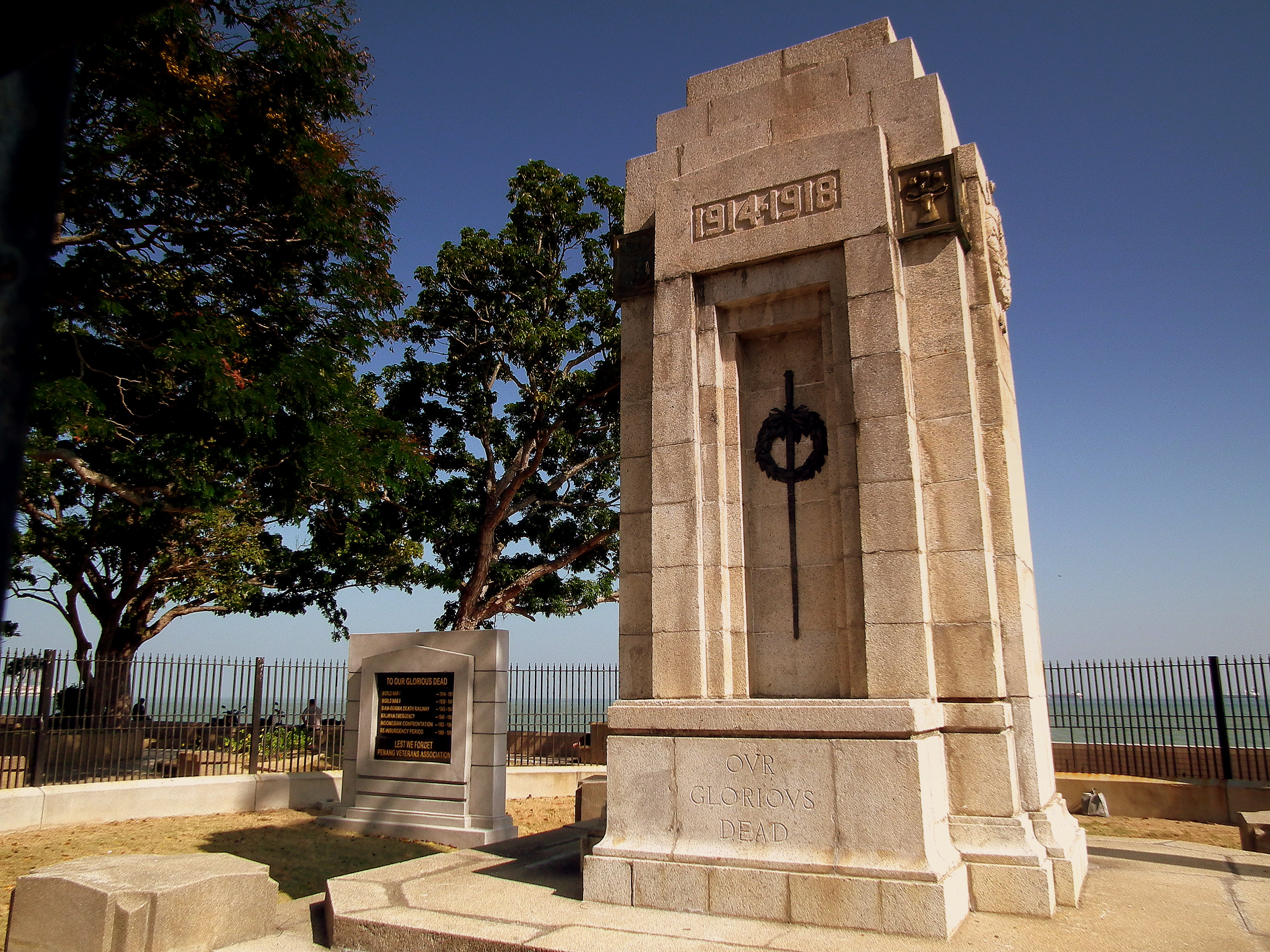 Memorial on the Georgetown waterfront to the dead of World war one from Penang